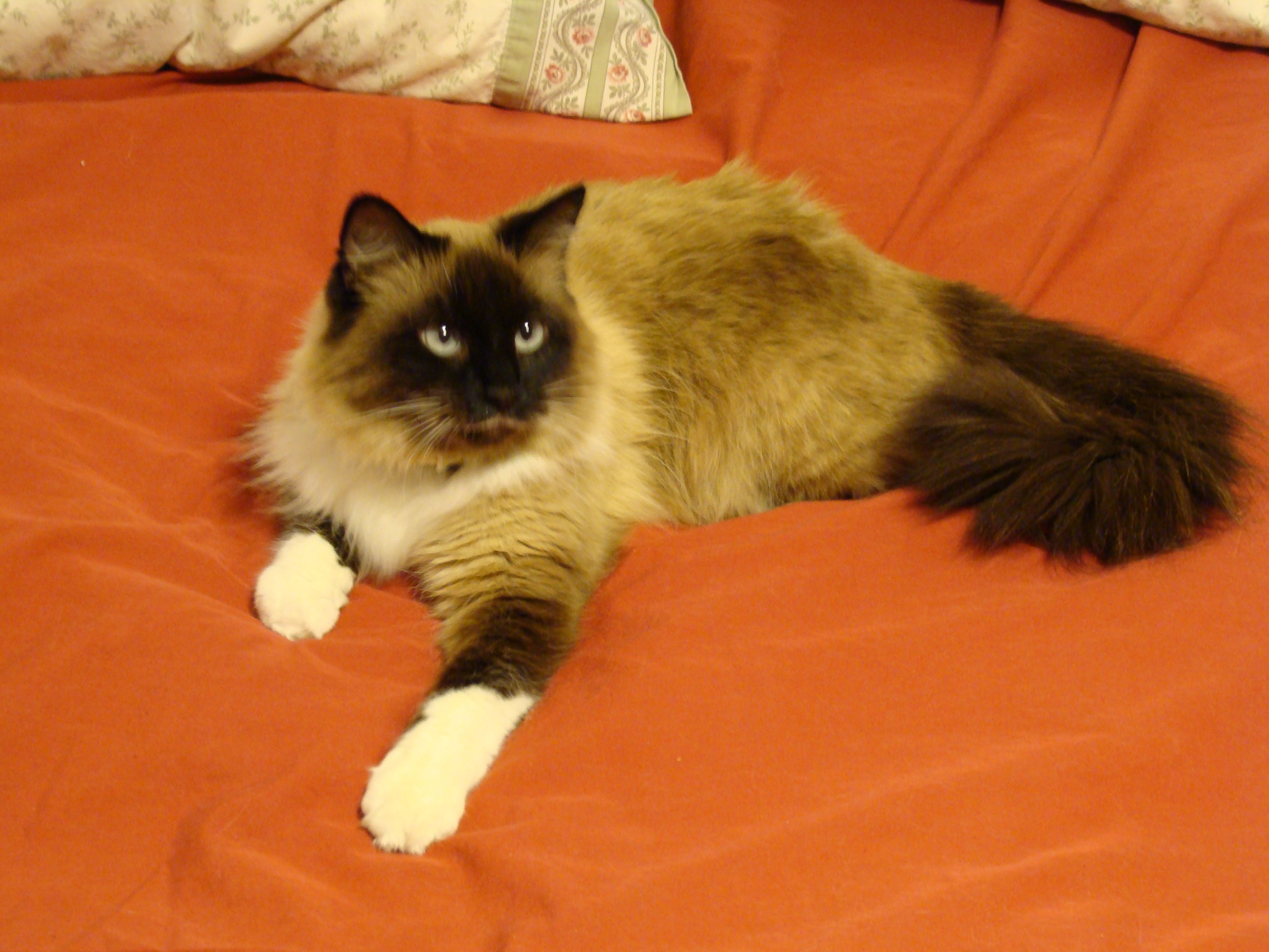 Feline female approx 2 yrs old. Birman breed